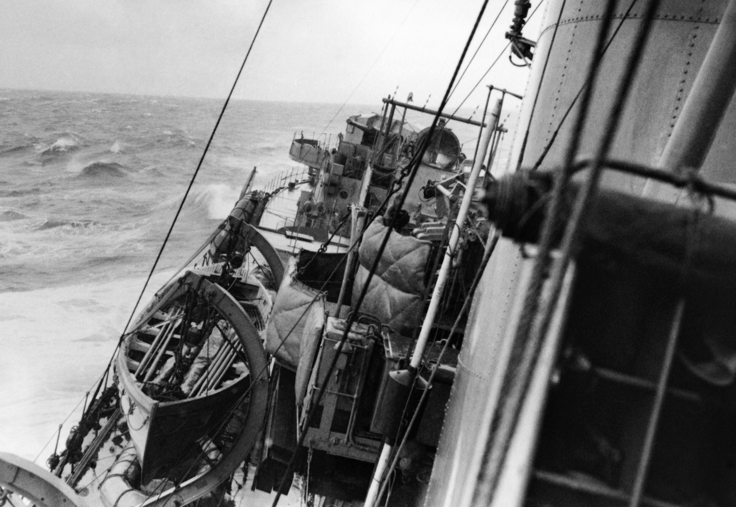 A River-class frigate of the Second World War